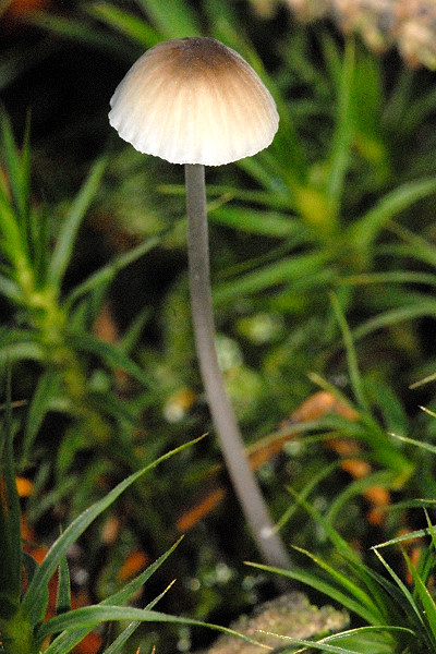 Mycena filopes from Commanster, Belgium. If you think this is a different taxon, please contact James Lindsey.